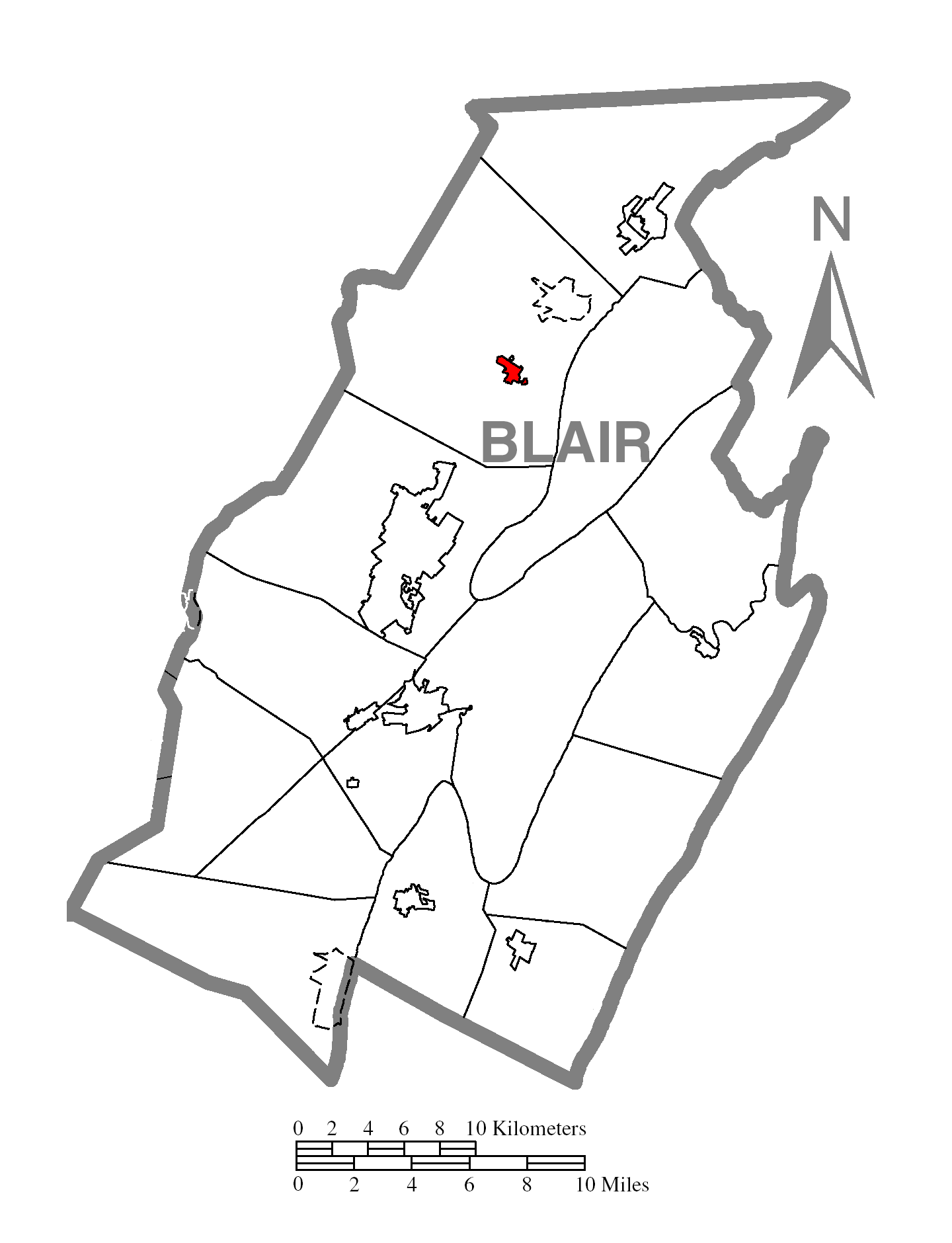 A map of Blair County showing Bellwood, Pennsylvania (alternate) highlighted on the map.